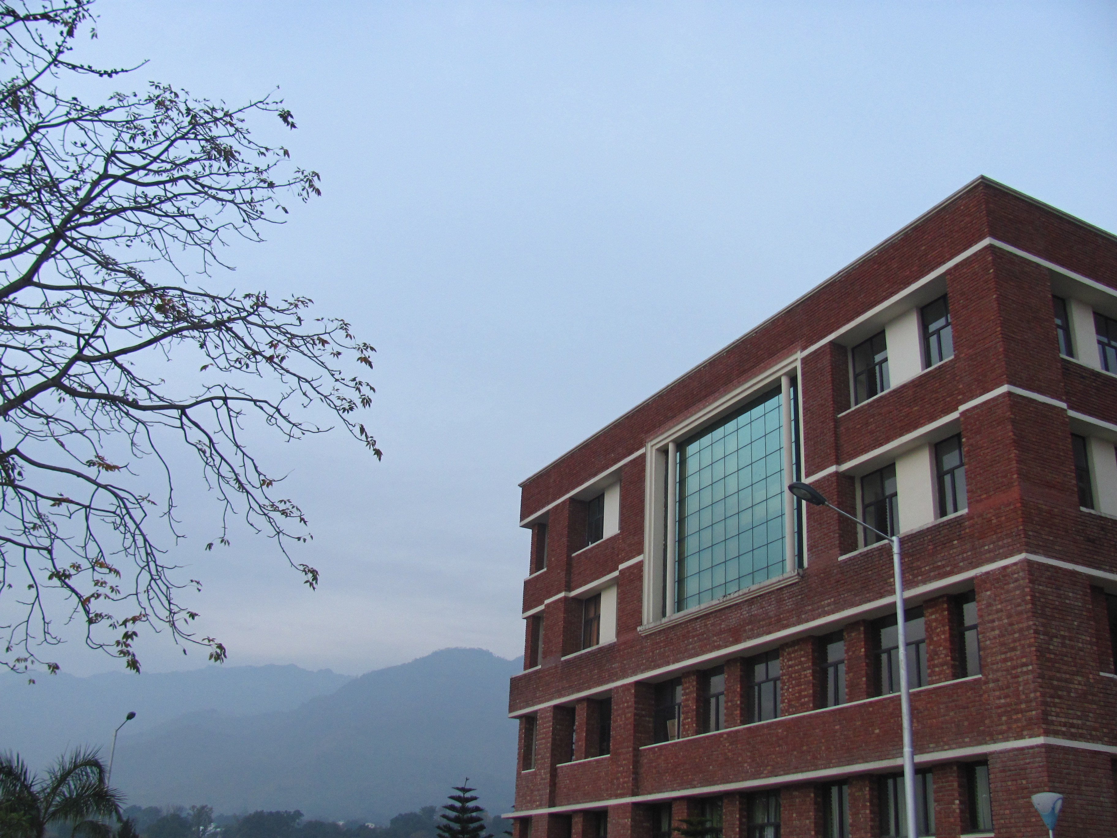 VASTU block of DITU